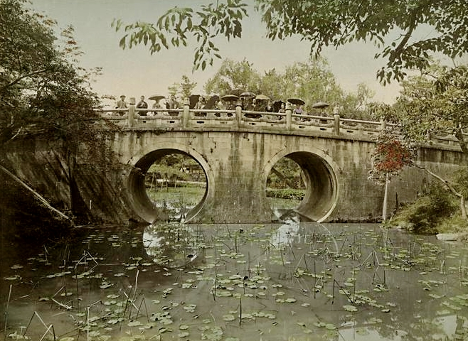 Entsu bridge, Koto city, Japan.